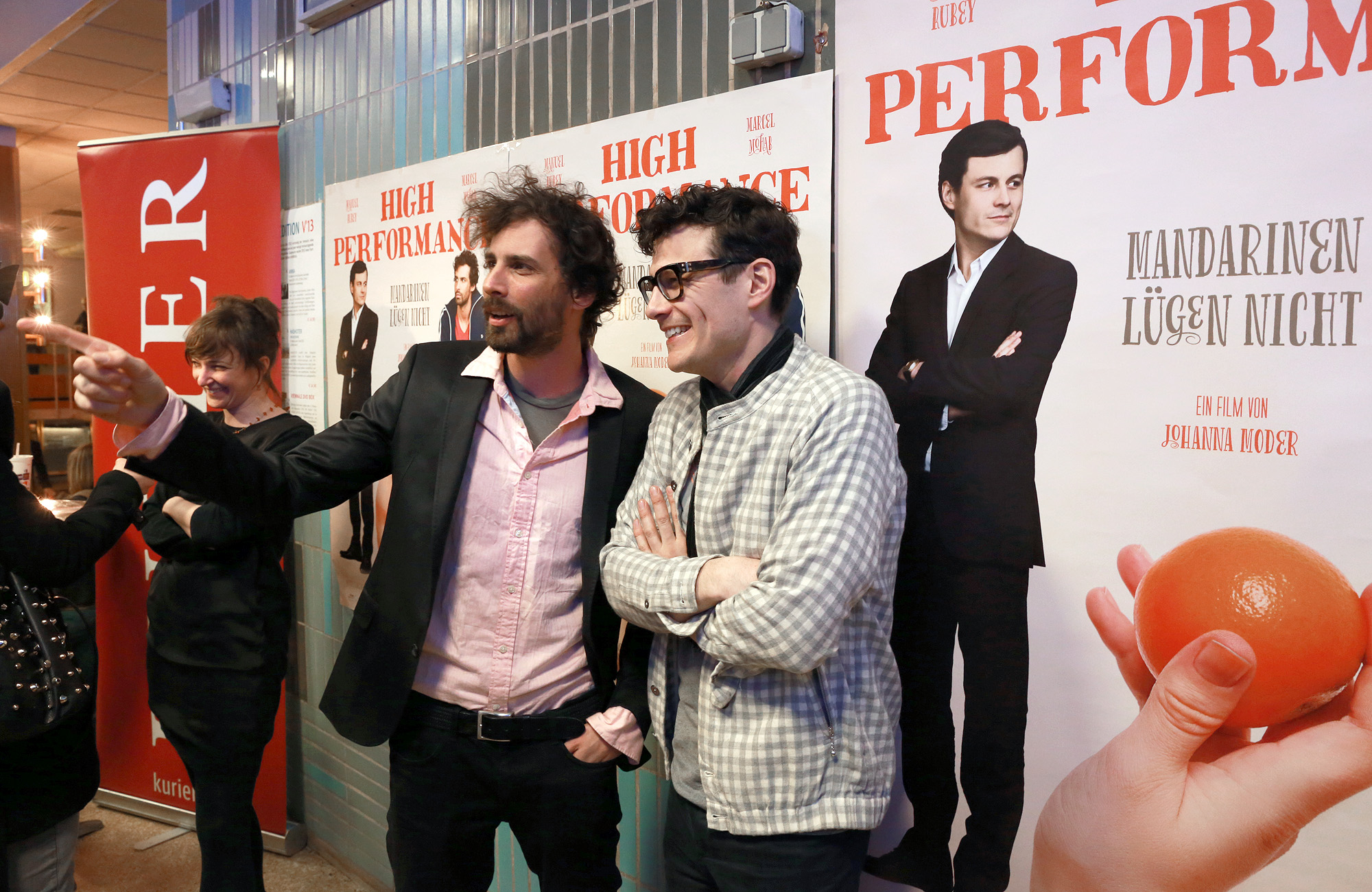 Johanna Moder, Marcel Mohab and Manuel Rubey at the viennese gala premiere of High Performance at Gartenbaukino (Vienna, Austria.